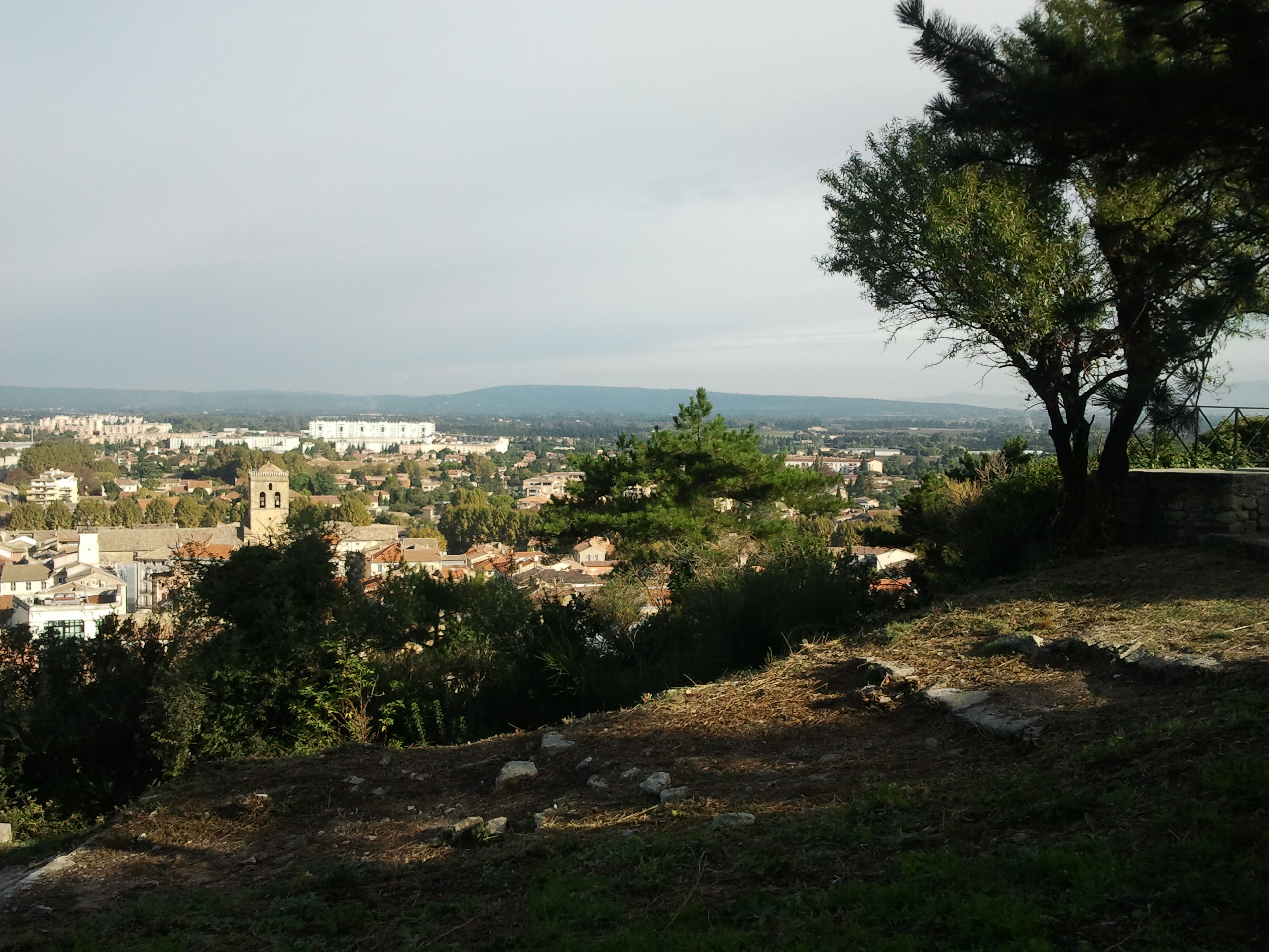 City of Orange, from the heights of the hill St. Eutropius